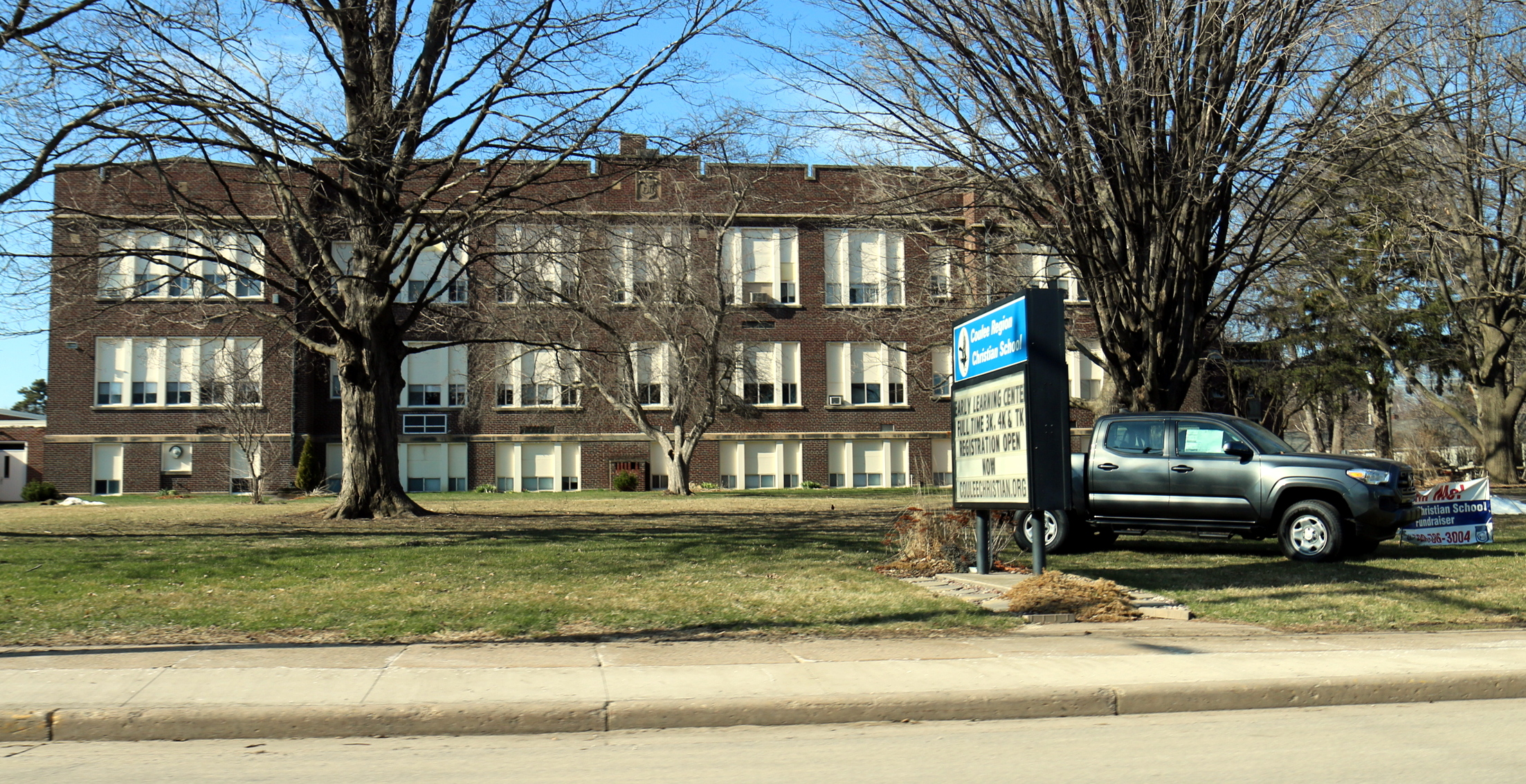 The Coulee Region Christian School in West Salem, Wisconsin.